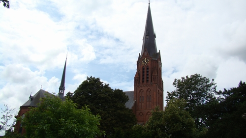 church of wassenaar